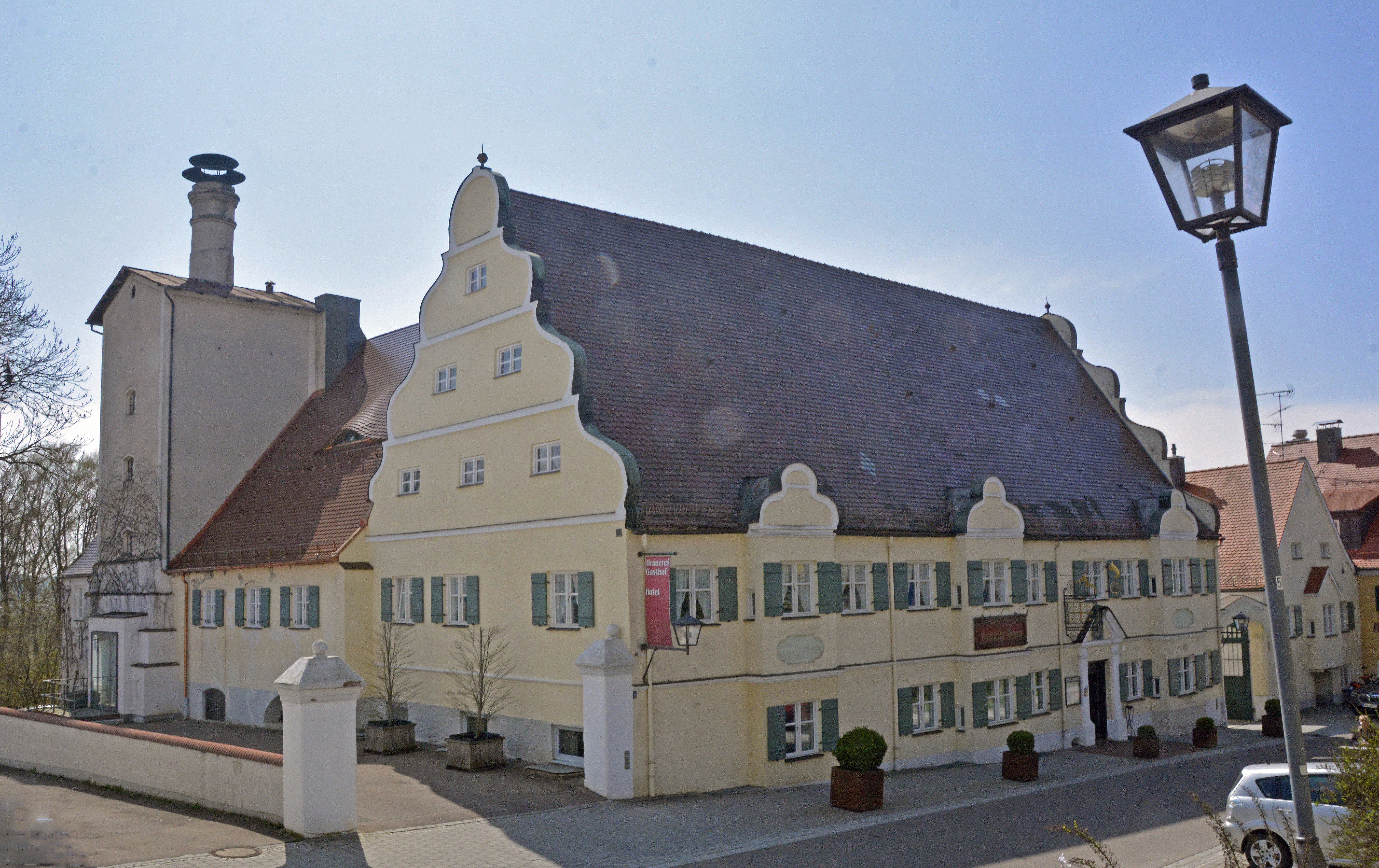 Brewery Inn and Hotel Kapplerbraeu, Altomuenster (District Dachau)